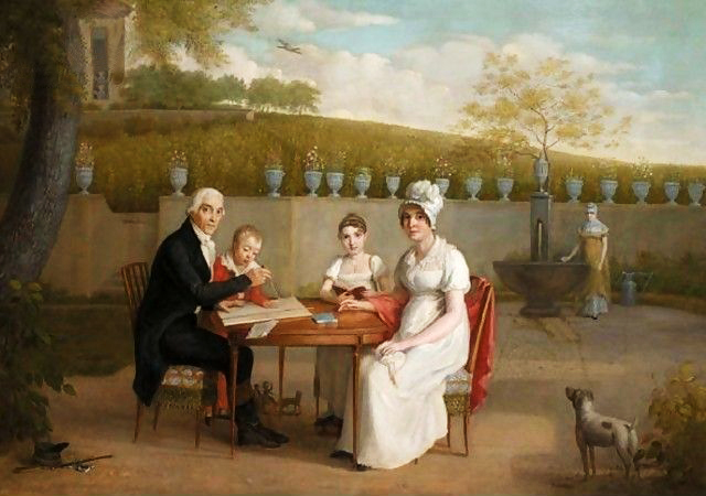 Portrait of the Arlaud family, seated at a table in an enclosed garden, a vineyard beyond